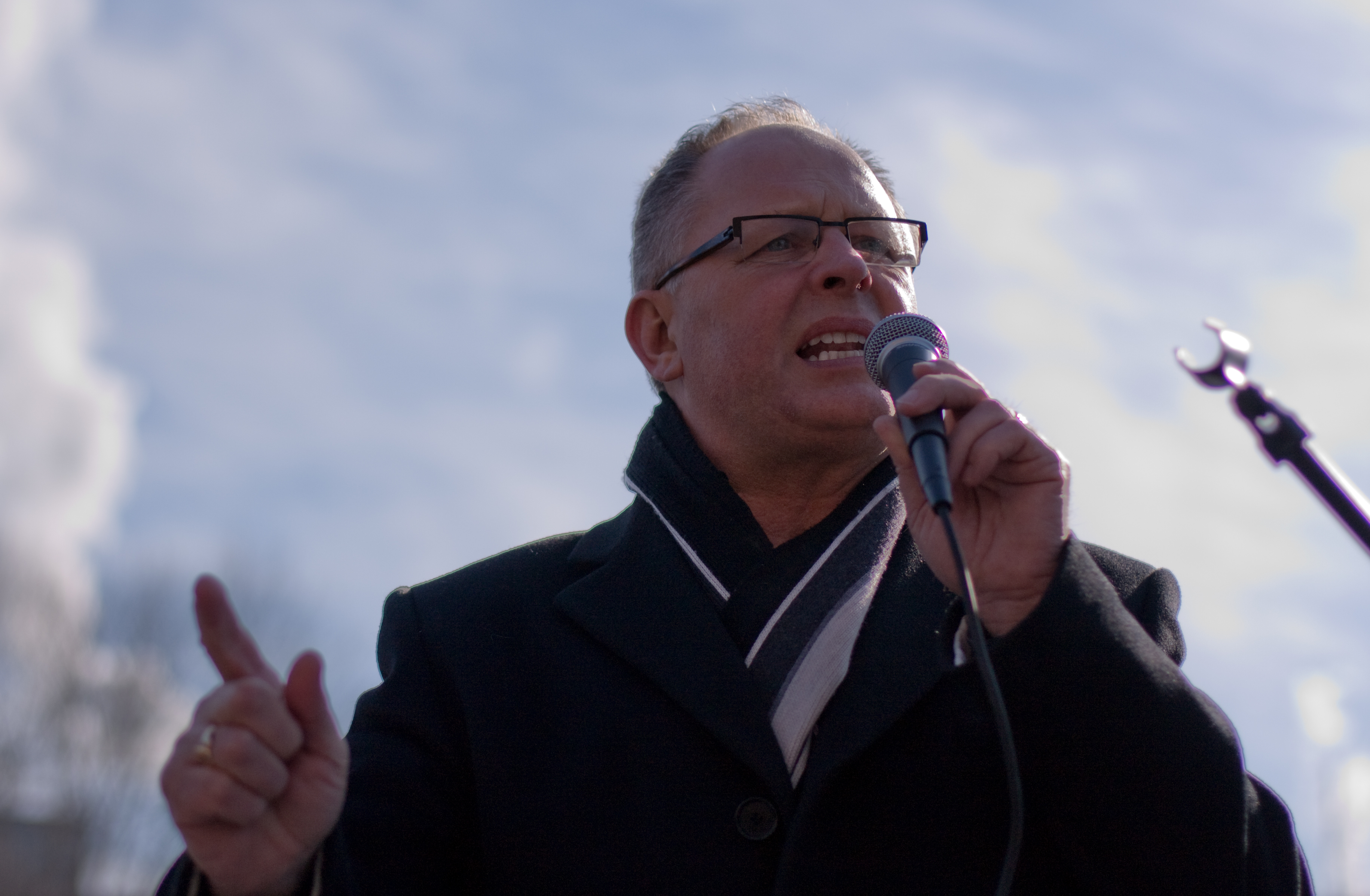 Sid Ryan gives an address during a CUPE 3903 rally at Queen's Park, Toronto